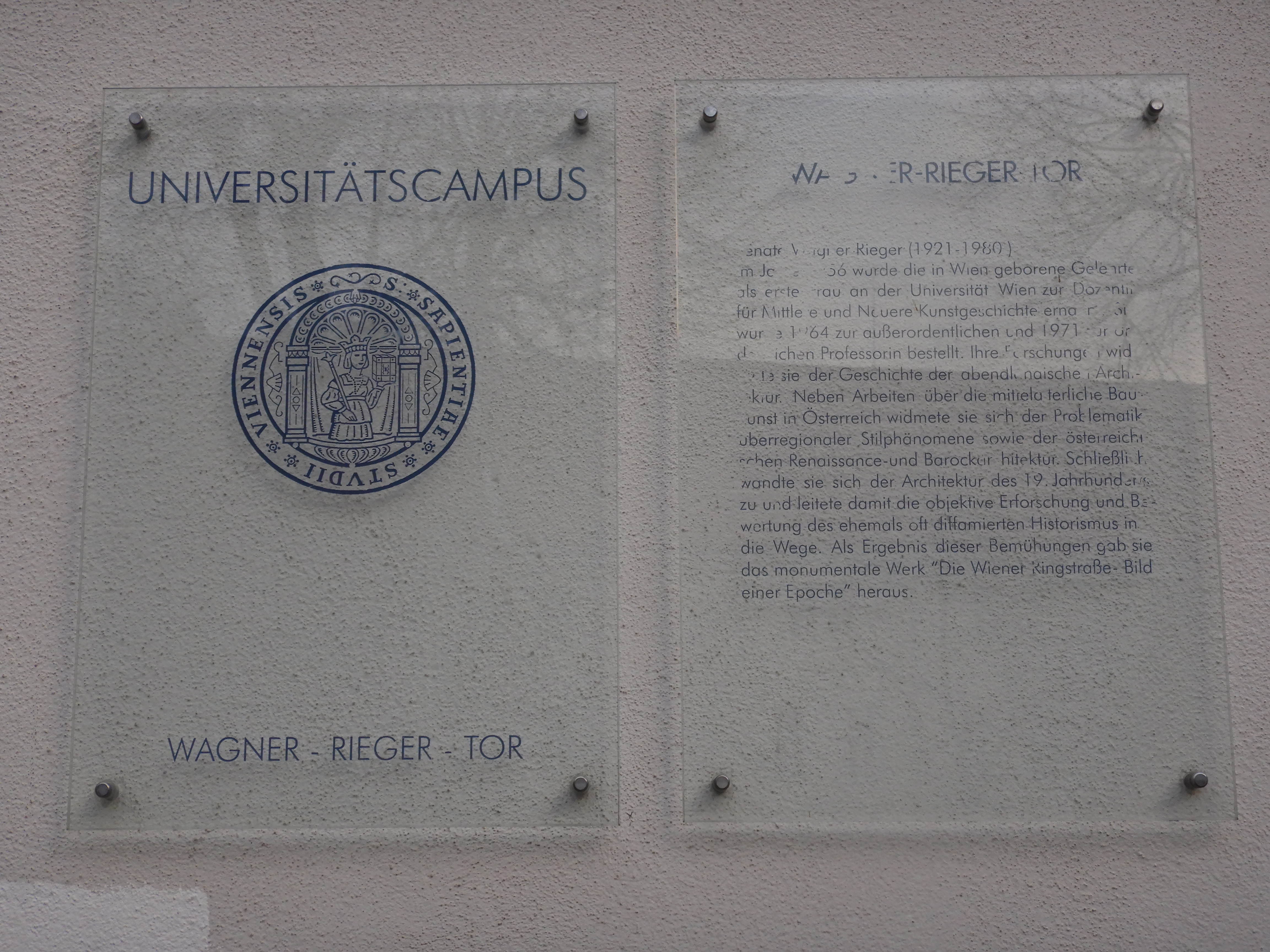 Memorial plaque toRenate Wagner-Rieger